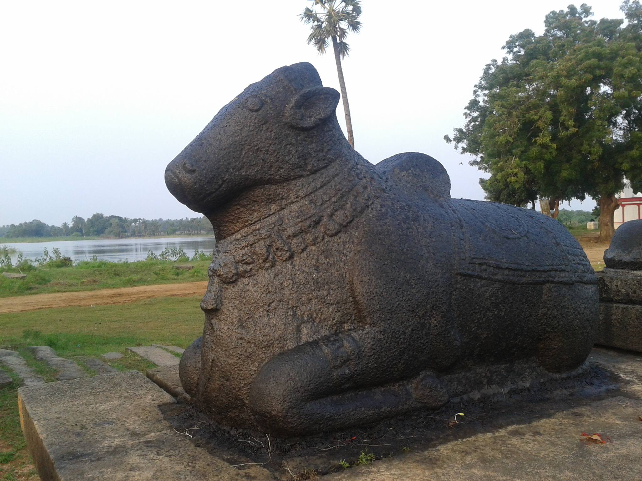 Vedal Nandhi